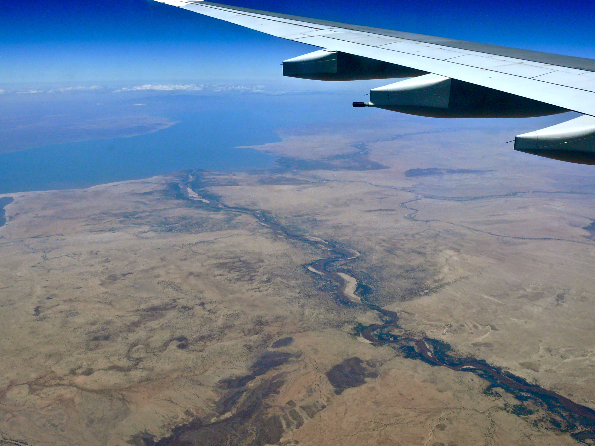 East of Lodwar, Northern KENYA